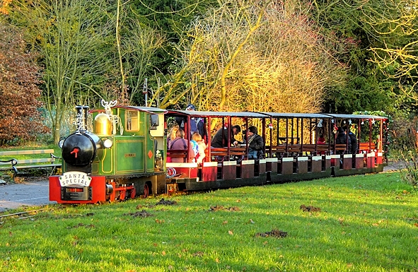 Santa Special at Haigh Hall near Wigan